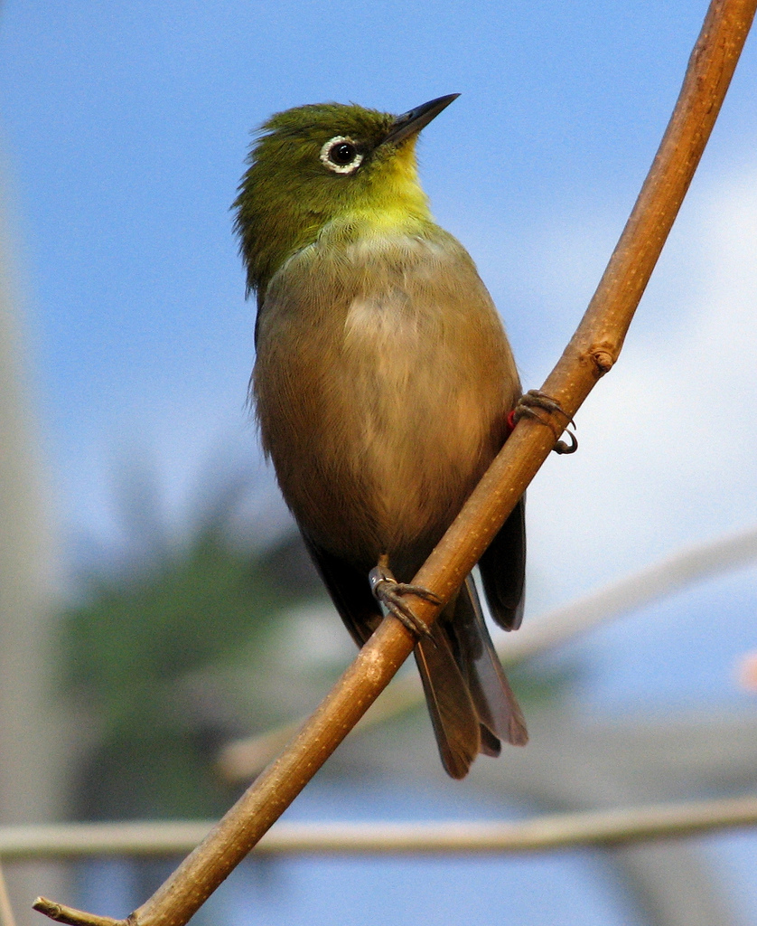 Japanese White-eye at Louisville Zoo